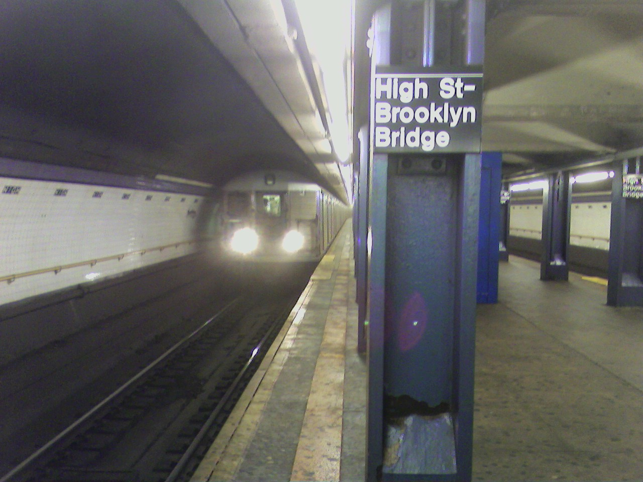 The High Street – Brooklyn Bridge subway station.